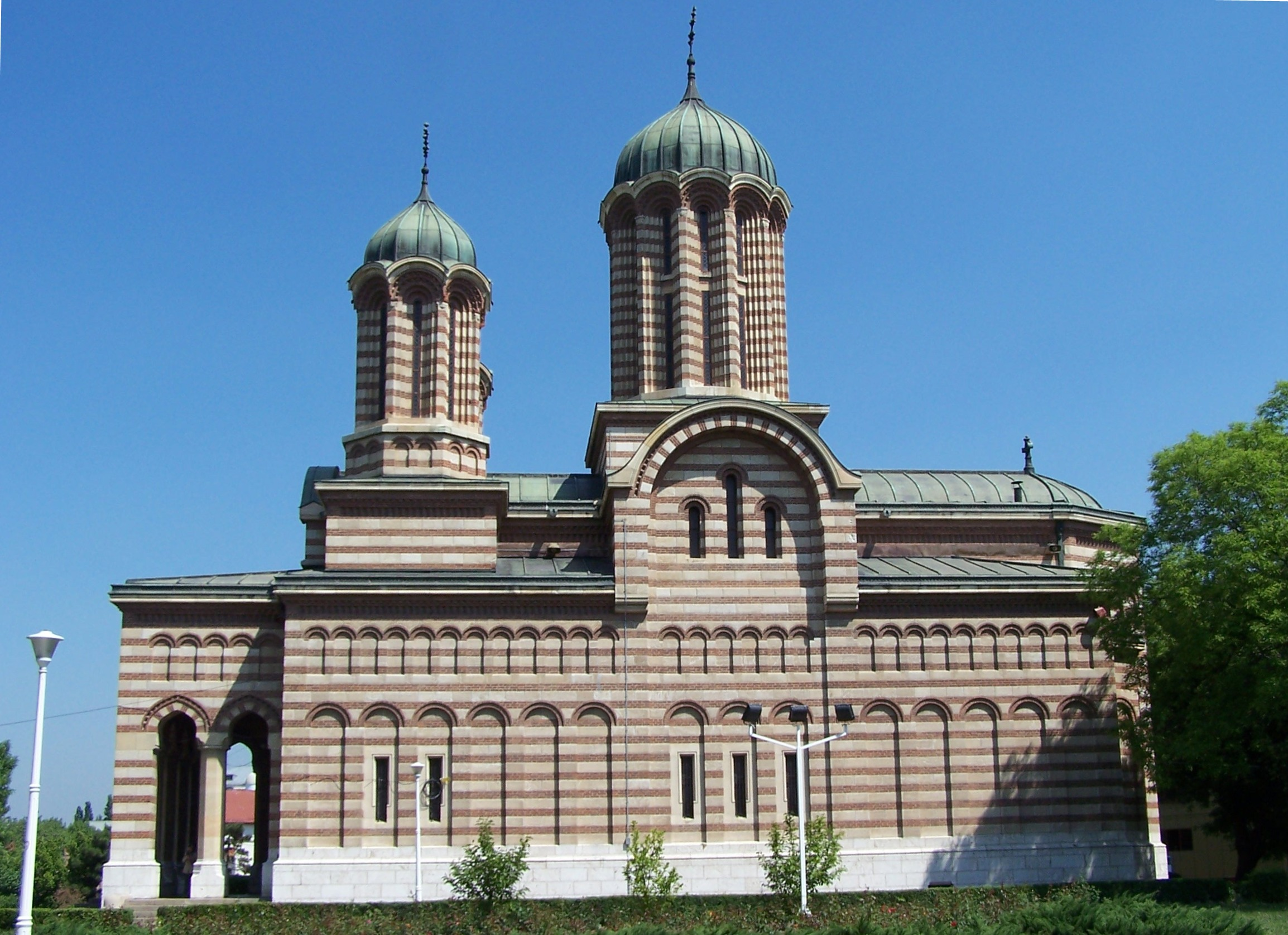 Craiova - St. Dumitru Church, rebuilt by the French architect André Lecomte du Nouy (1844-1914) between 1889 - 1893, with the help of the Romanian royal family, King Carol I and Queen Elisabeta.